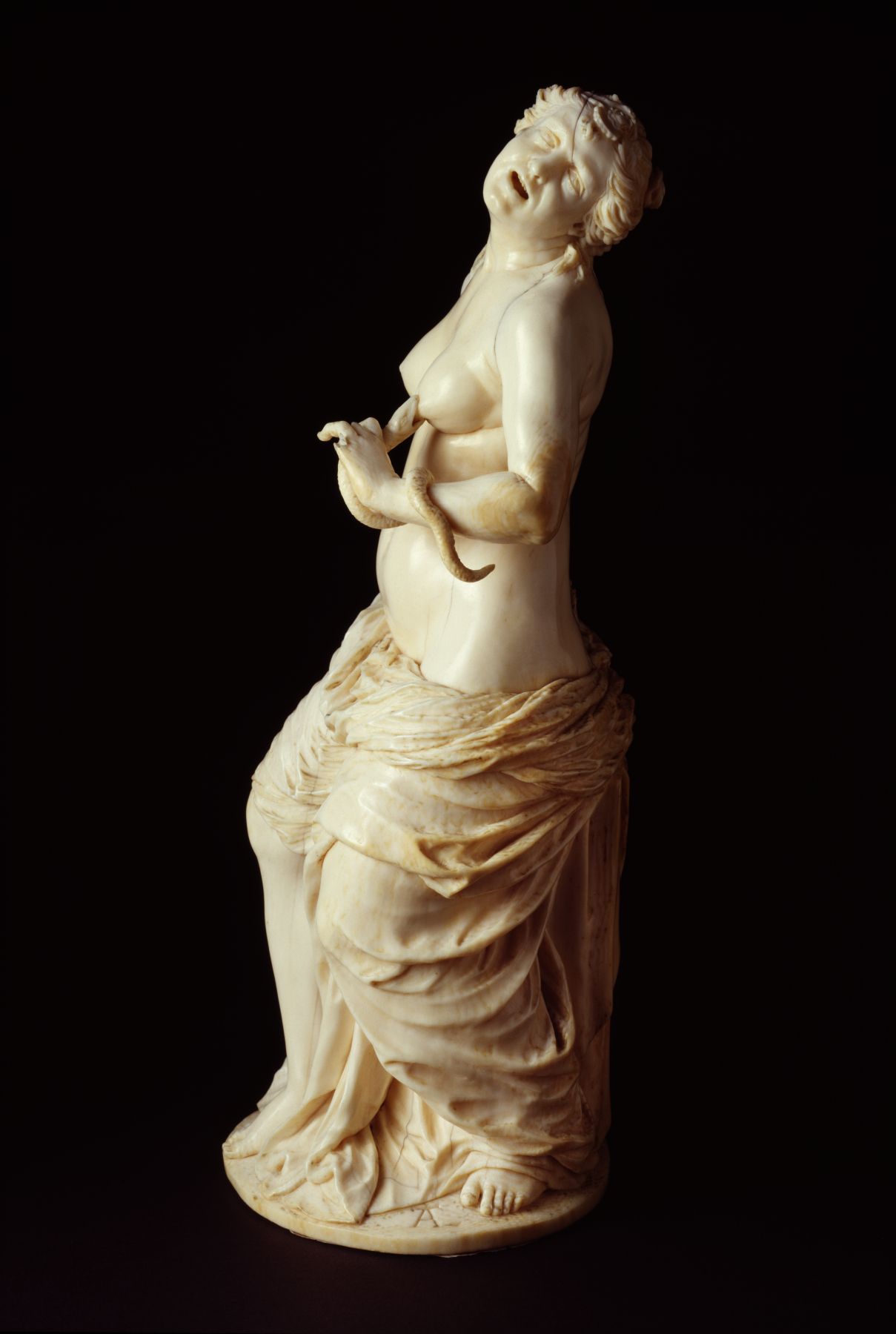 Queen of Egypt (51-30 BC) and celebrated for her seductive beauty, Cleopatra is depicted taking her own life with the bite of a poisonous serpent. Writhing in pain, she embodies the baroque taste for plump female beauty and intense emotion. Ivory's unique appeal to the sense of touch helps to convey the vulnerability of her flesh. The piece is signed with the monogram of Adam Lenckhardt, renowned across Europe for the naturalism of his works in ivory.